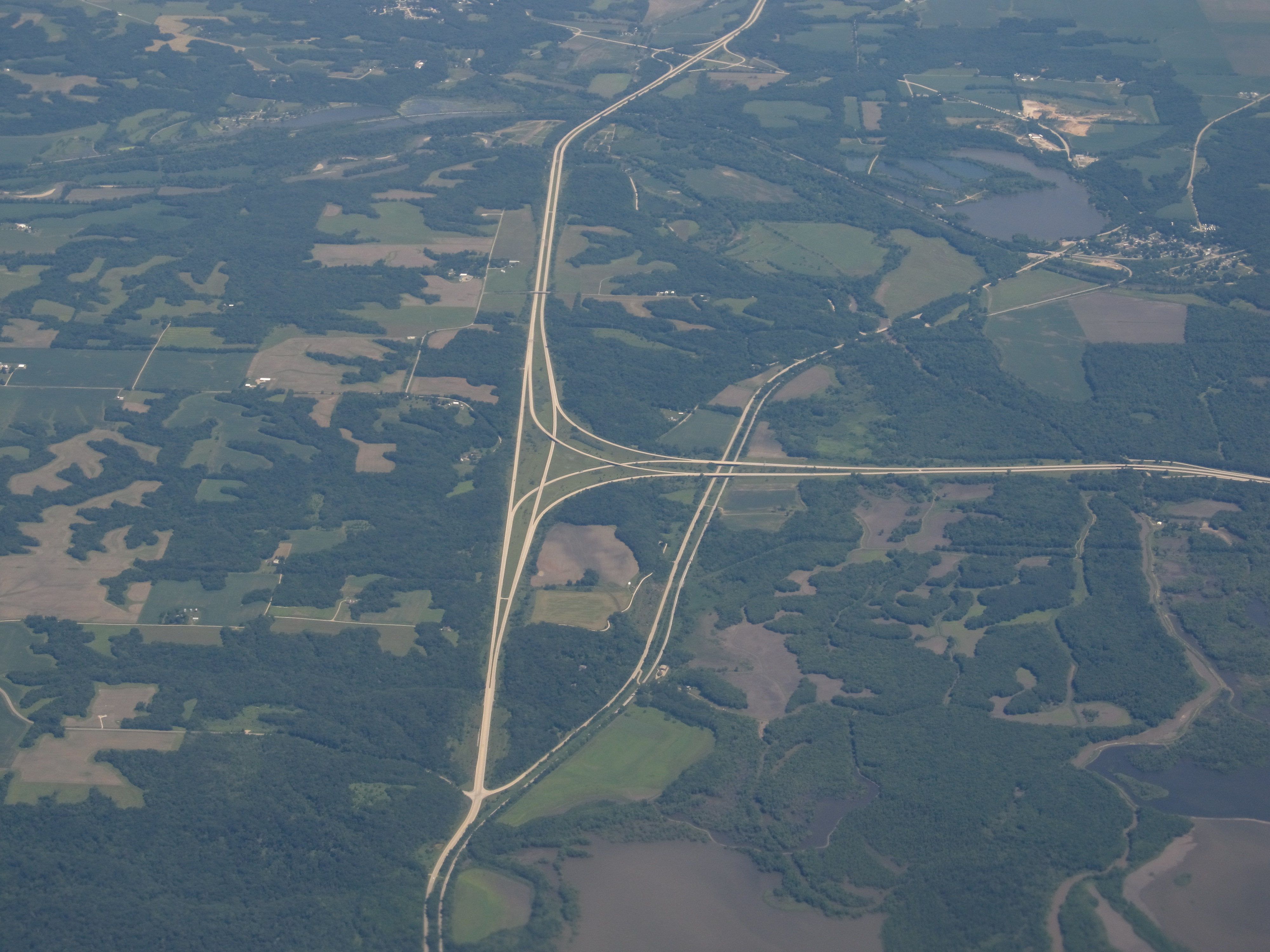 Interstate 180 (abbreviated I-180) is a north–south spur highway that runs from Princeton, Illinois to the small town of Hennepin, Illinois on its southern terminus. It is 13.19 miles (21.23 km) long. Interstate 180 winds through a forested, hilly area in north-central Illinois. The local topography surrounding I-180 is heavily influenced by the Illinois River. It has four lanes for its entire length. Construction of I-180 was completed in 1969. The freeway was built primarily to connect Interstate 80 to a new Jones & Laughlin steel plant built in 1965 at Hennepin, IL. However, the steel plant closed soon after I-180 was built, and did not re-open until August 2002. I-180 is one of the least traveled interstates in the nation, serving 2,450 – 4,100 vehicles per day as of 2007.